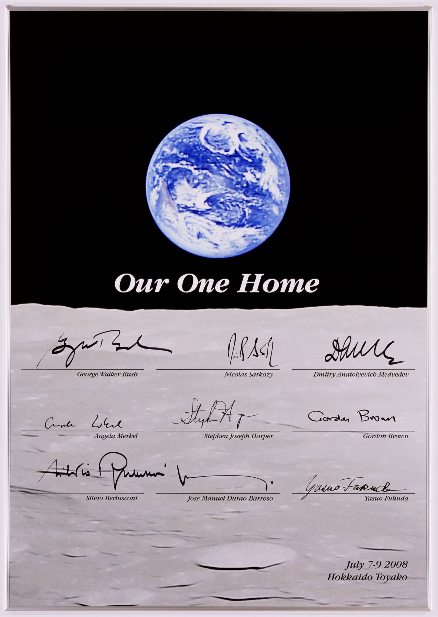 34th G8 summit member's Signature